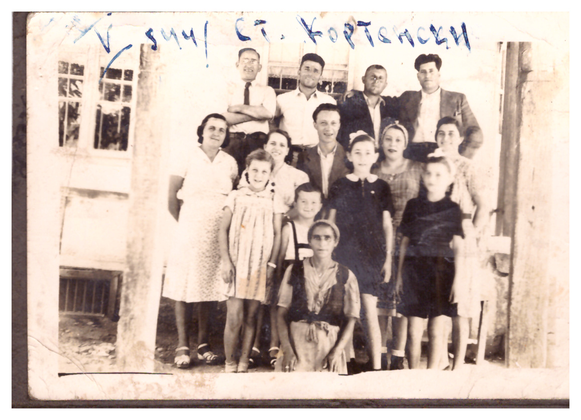 Familie Kortenski,Familie Vlachovi, Familie Vekovski, vor dem Haus von Yordan Vlachov